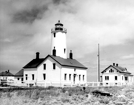 New Dungeness Light after 1927, Sequim (Clallan County, Washington)